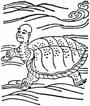 Oshō-uo (和尚魚) from the Wakan Sansai Zue (和漢三才図会)